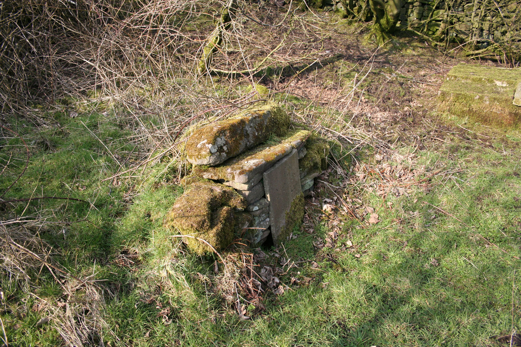 The source of the River Dove , on the Derbyshire/Staffordshire border near Axe Edge Moor